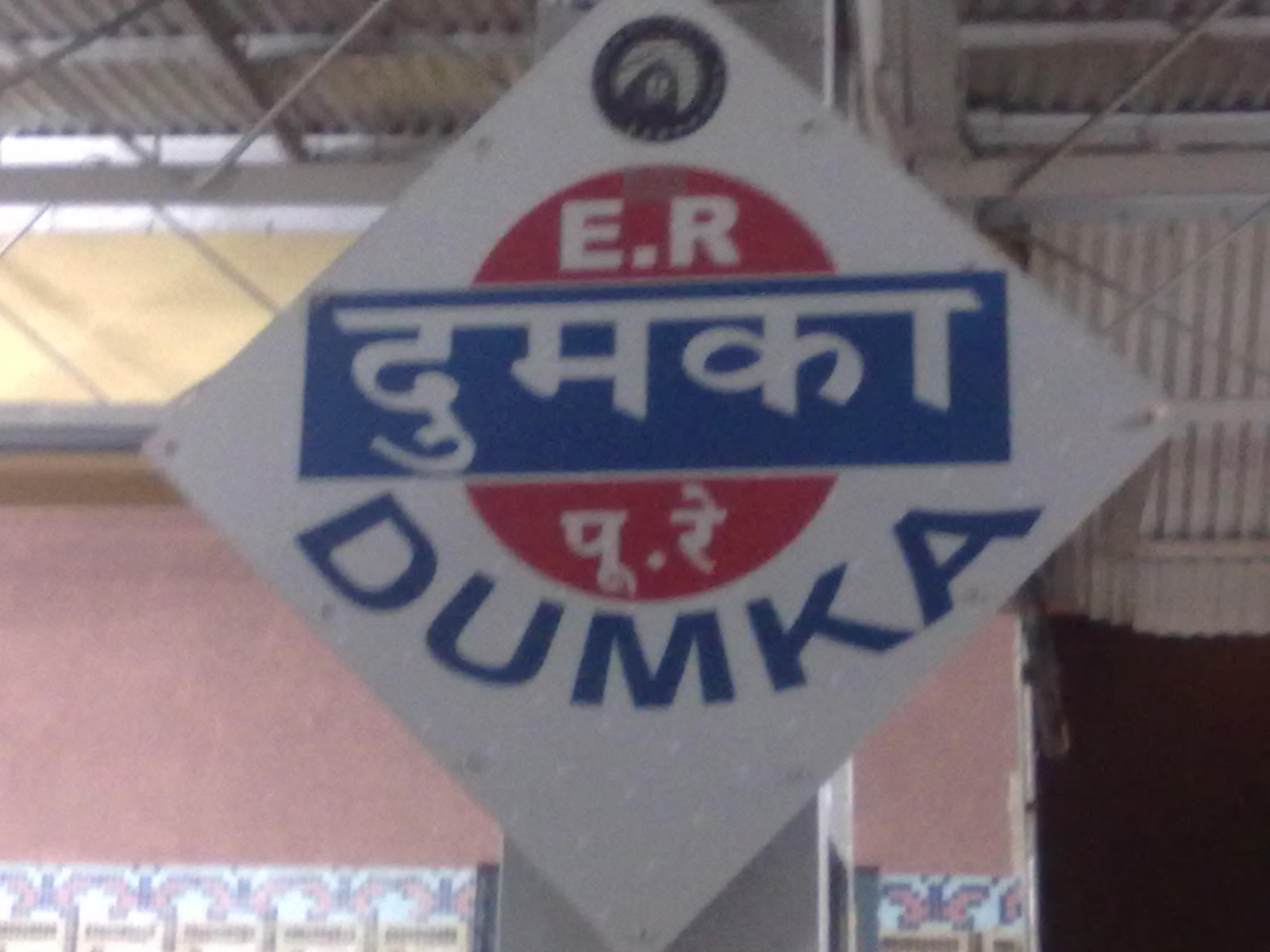 sign board of Dumka railway.